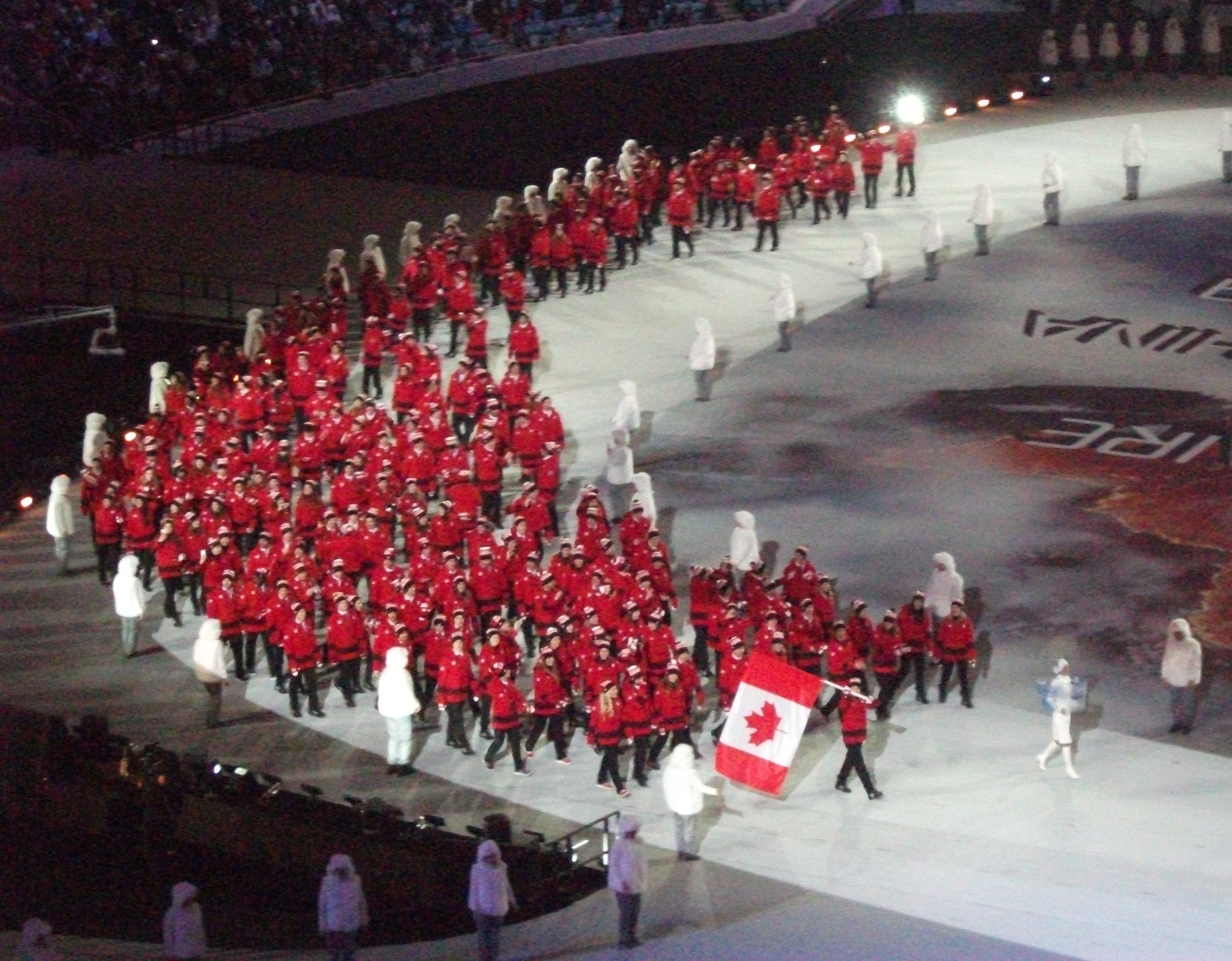 Canadian Team marches into Fisht Olympic Stadium during the Opening Ceremony of the 2014 Olympic Winter Games on Feb. 7 in Sochi, Russia.